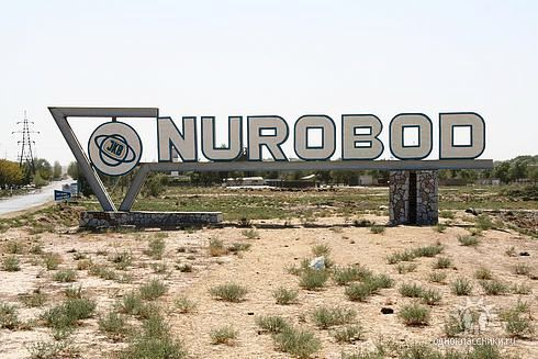 Nurabad Samarqand YuRU